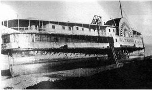 Steamer Olympian wrecked at Possession Bay, Chile, 1906